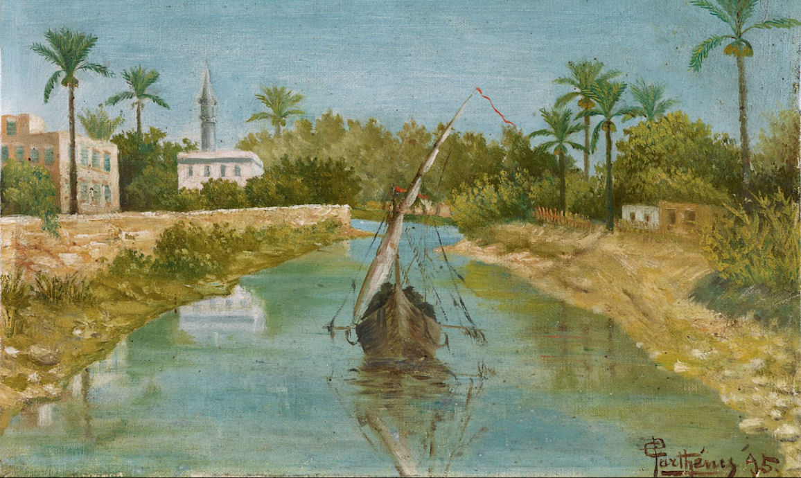 Parthenis Konstantinos, Egyptian landscape